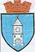 The old coat of arms of the town of Slobozia, Romania (1927).